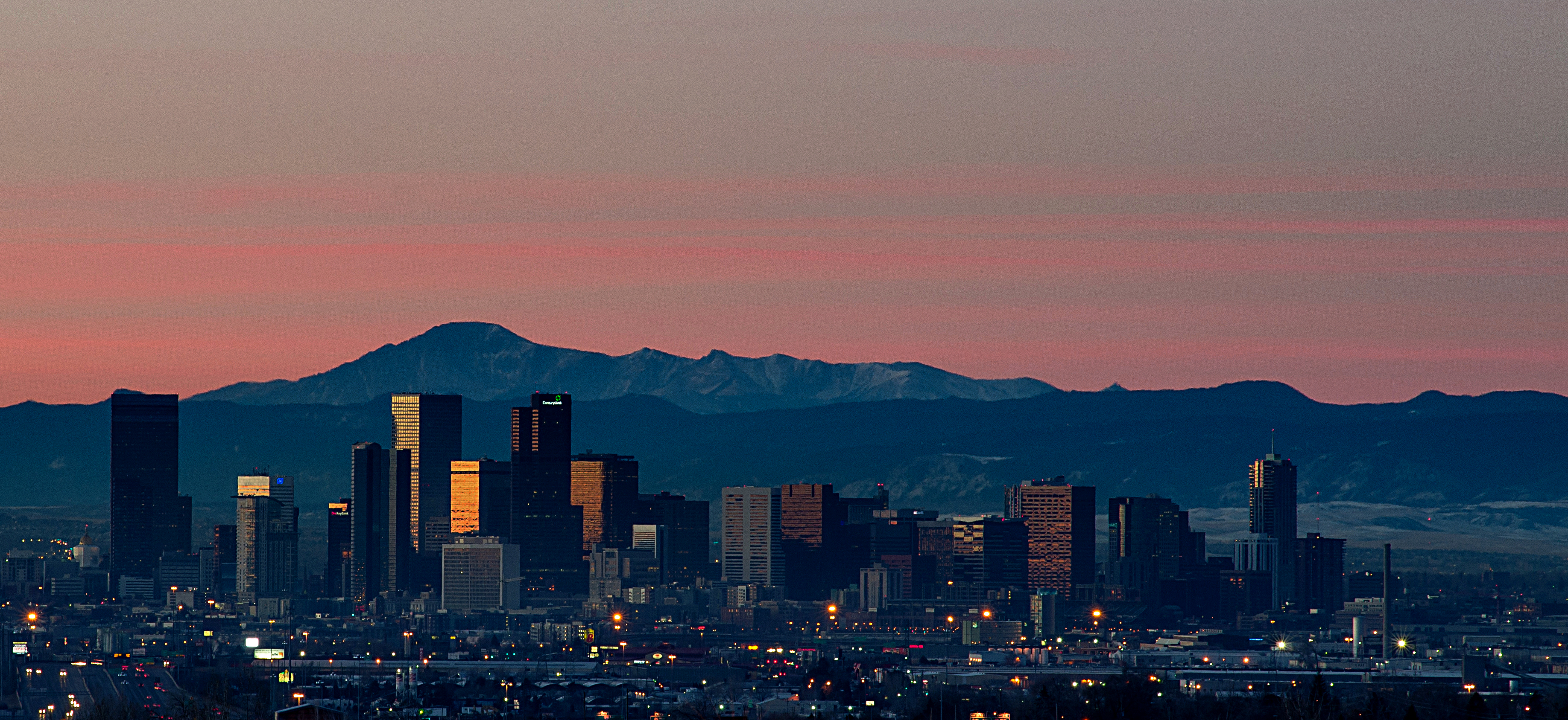 A view of the downtown Denver skyline with the sunrise over it. Taken from the north.